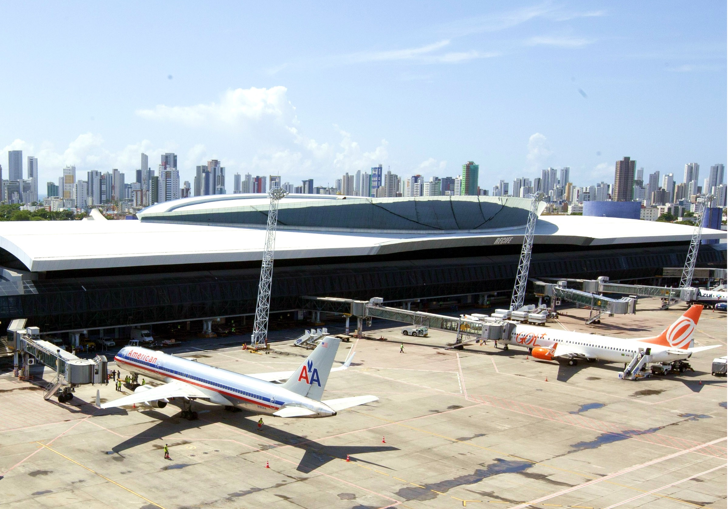 Aeroporto Internacional Gilberto Freyre (Guararapes)